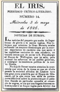 Cover of the Mexican journal El Iris from 3 May 1826